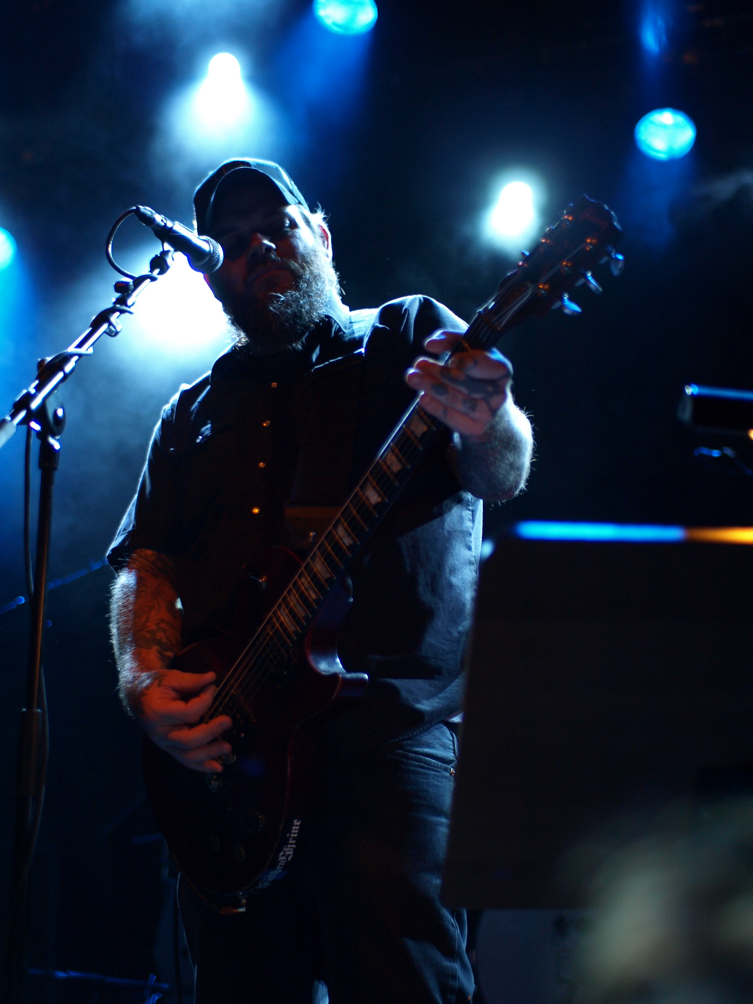 Scott Kelly solo